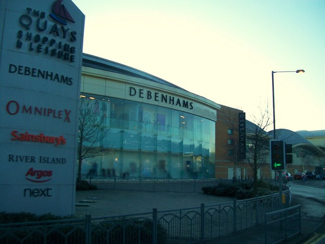 The Quays Shopping and Leisure Centre, Newry Overlooking Albert Basin, the Quays is a major shopping and leisure complex. It and other shopping centres in the rejuvenated Newry have helped to make the town a mecca for shoppers from the "Rip-Off South" where items can be two or three times dearer than in the North. This a reversal of the pattern in the 80's and 90's when Newry folk used to make their way in droves to shop in Dundalk and Dublin.